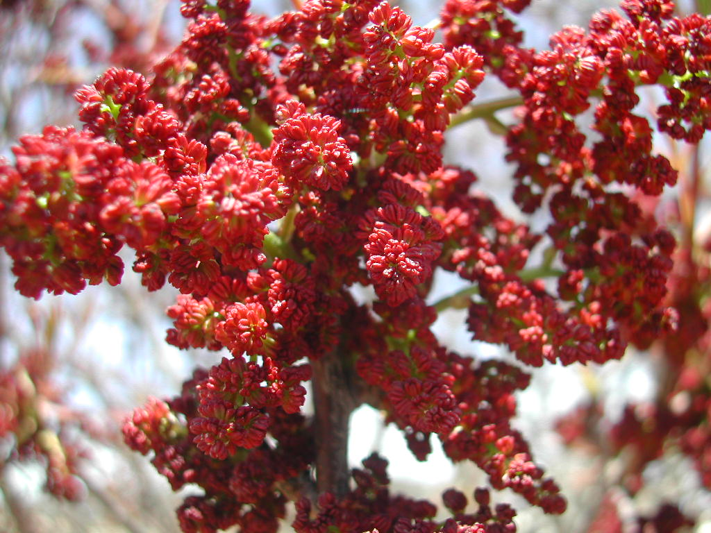 Flowers of Pistacia terebinthus subsp. palaestina, Mount Meron, Upper Gallilee, Israel